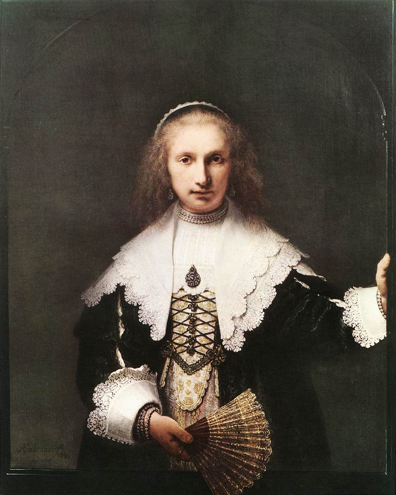 Portrait of Agatha Bas, Wife of Nicolas van Bambeeck